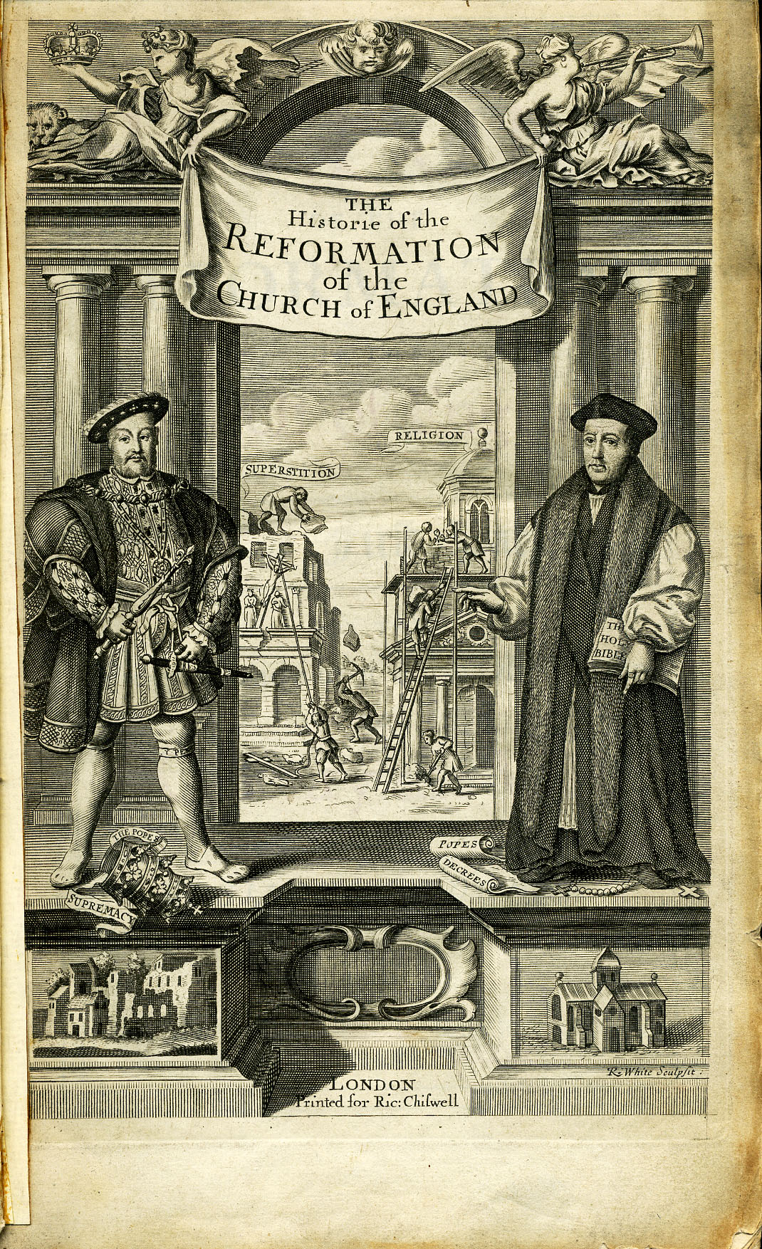 Engraved Titlepage of Volume 1 of Burnet's History of the Reformation of the Church of England, 1679.